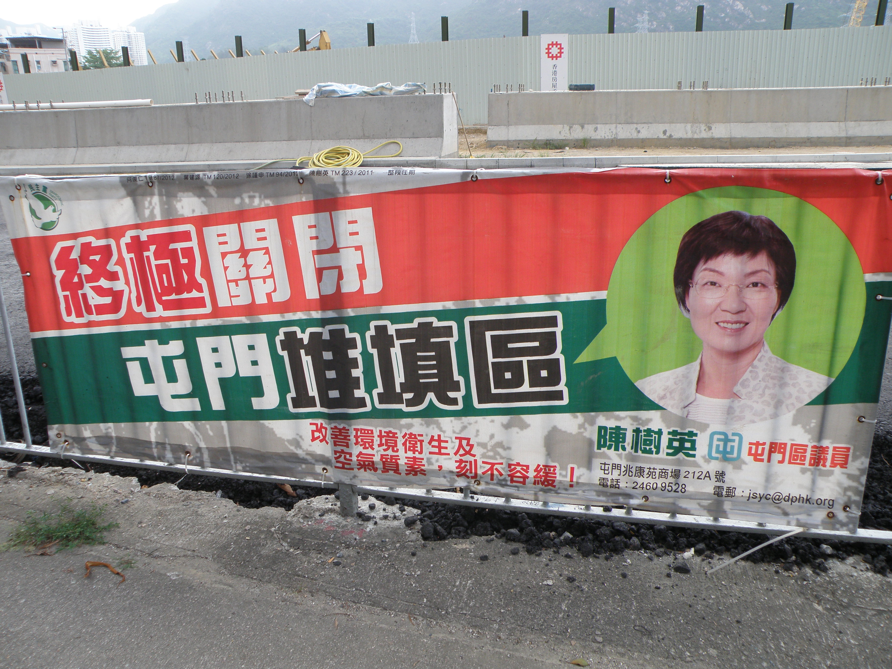 Josephine Chan Shu-ying, a member of Democratic Party (Hong Kong).